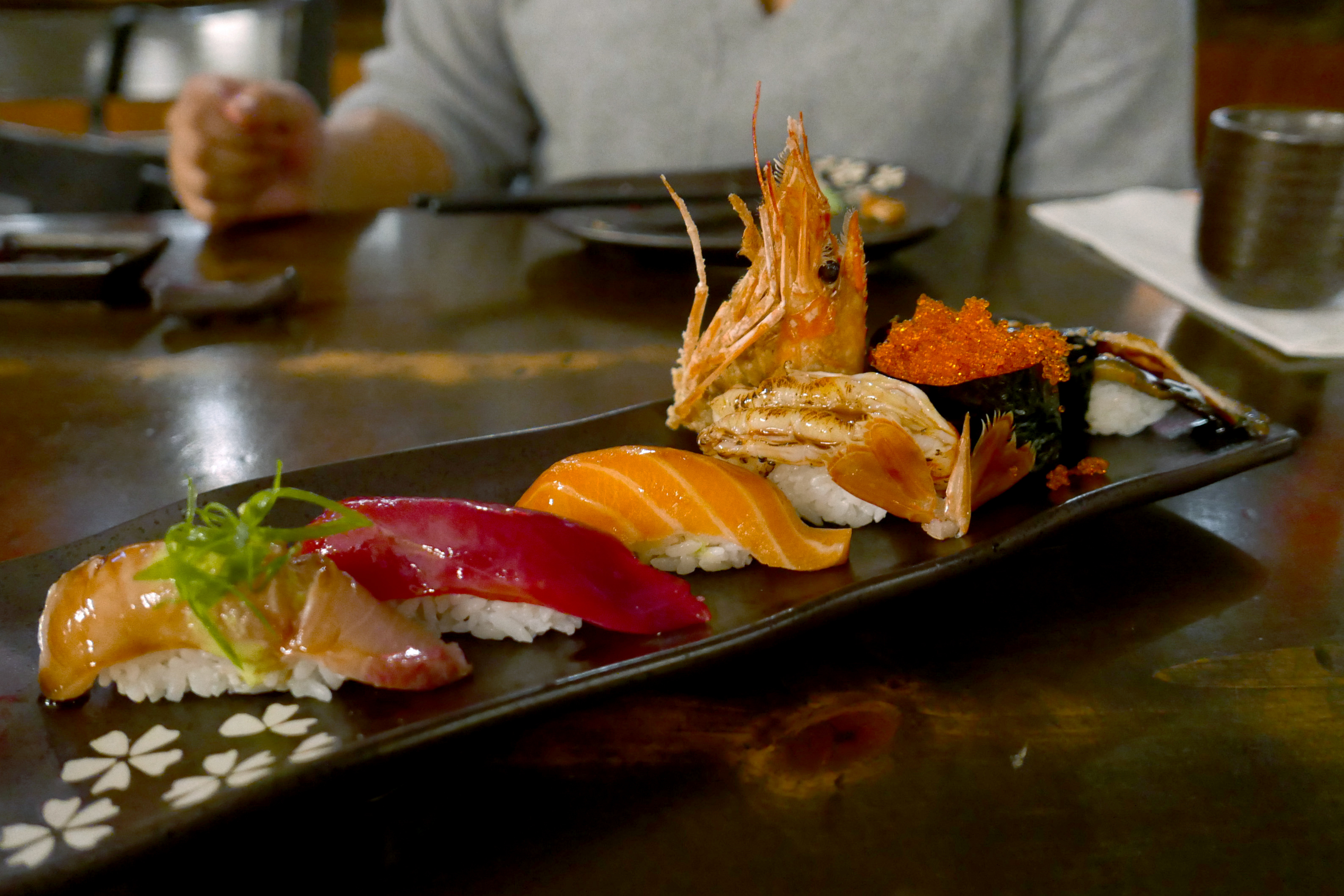 Raisu | Chicago | 01/10/18